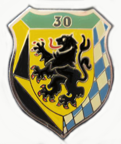 Staff & HQ Company 30th armored Grenadiers Brigade